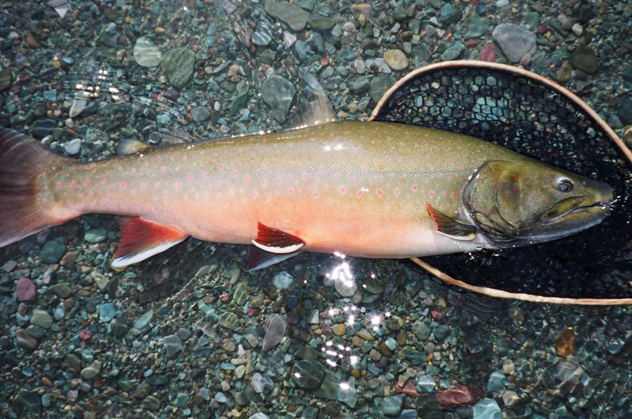 Image title: Bull trout on rocks by water (Salvelinus confluentus) Image from Public domain images website